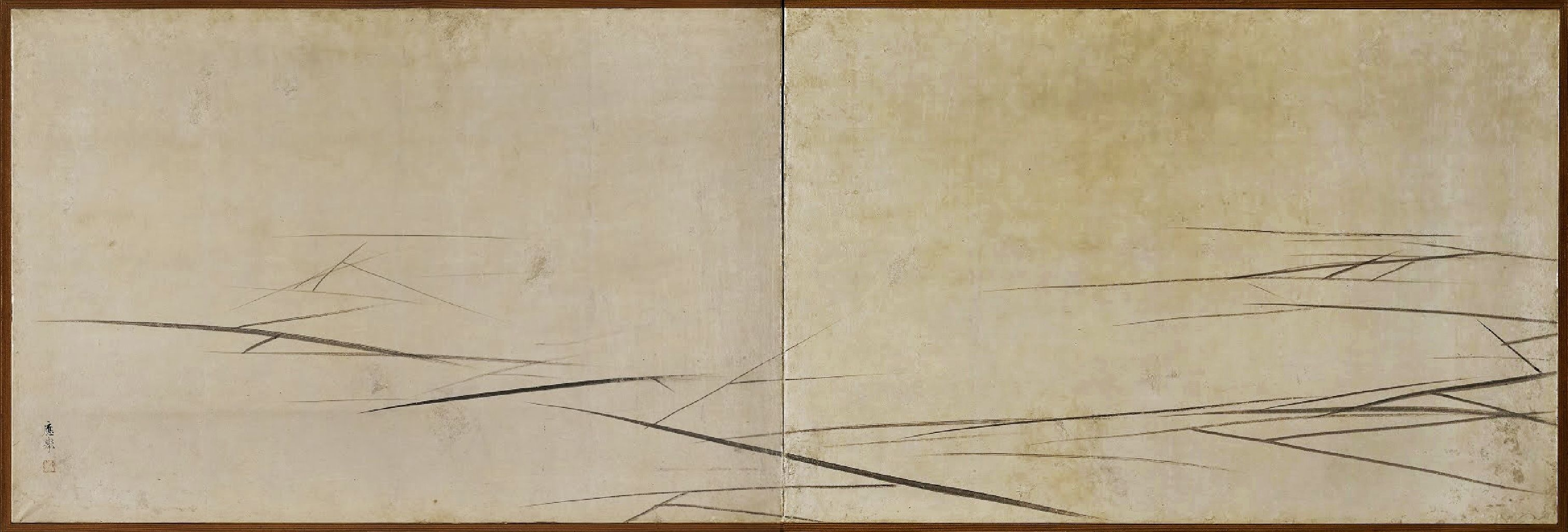 Maruyama Okyo, Cracked ice, a 2-fold screen painting. These type of painting were used in tea ceremonies as backdrops. The painting has been influenced by Western type of use of perspective, brought to Japan by Dutch traders.